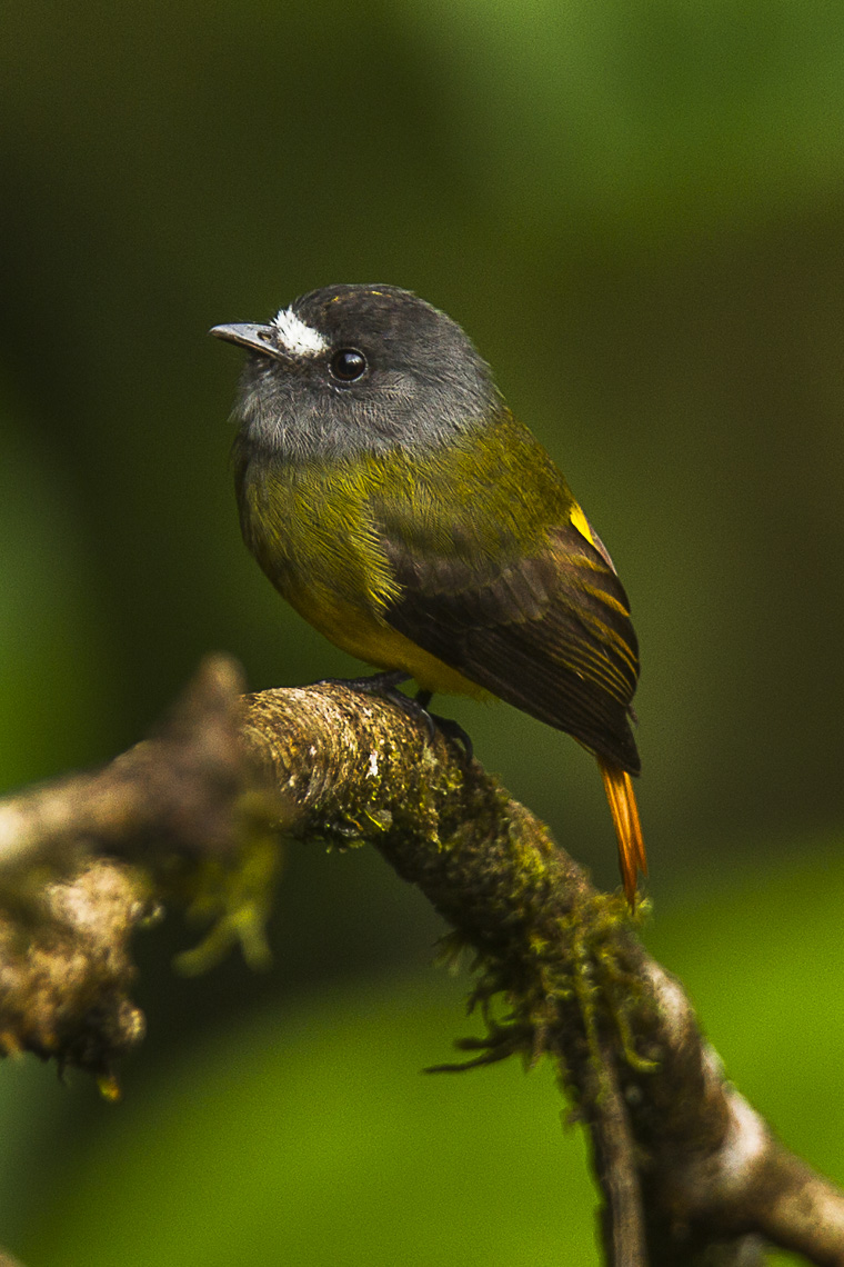 Ornate Flycatcher - South Ecuador_S4E0633